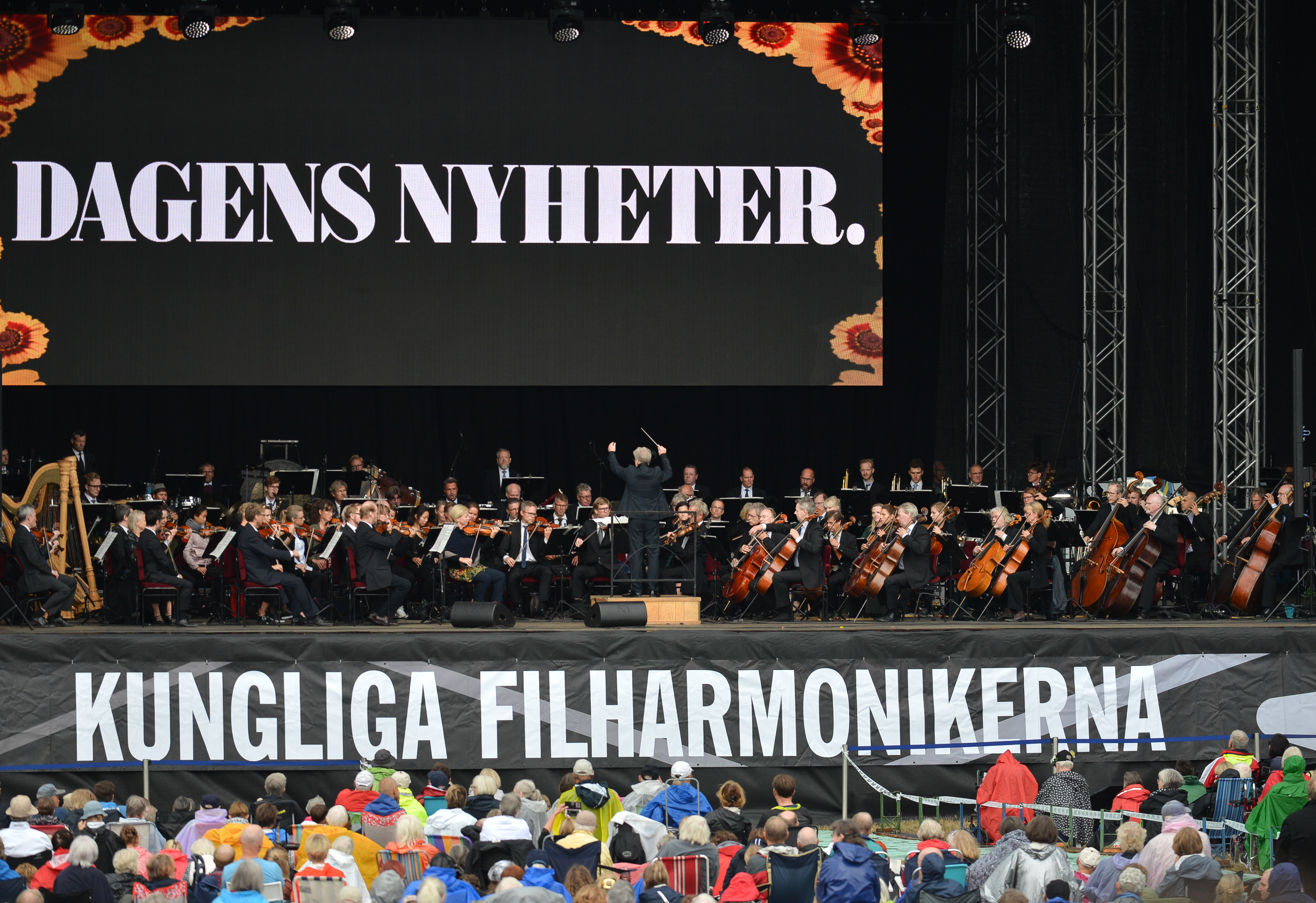 Royal Stockholm Philharmonic Orchestra during the DN concert at Gärdet in Stockholm on August 12, 2018.